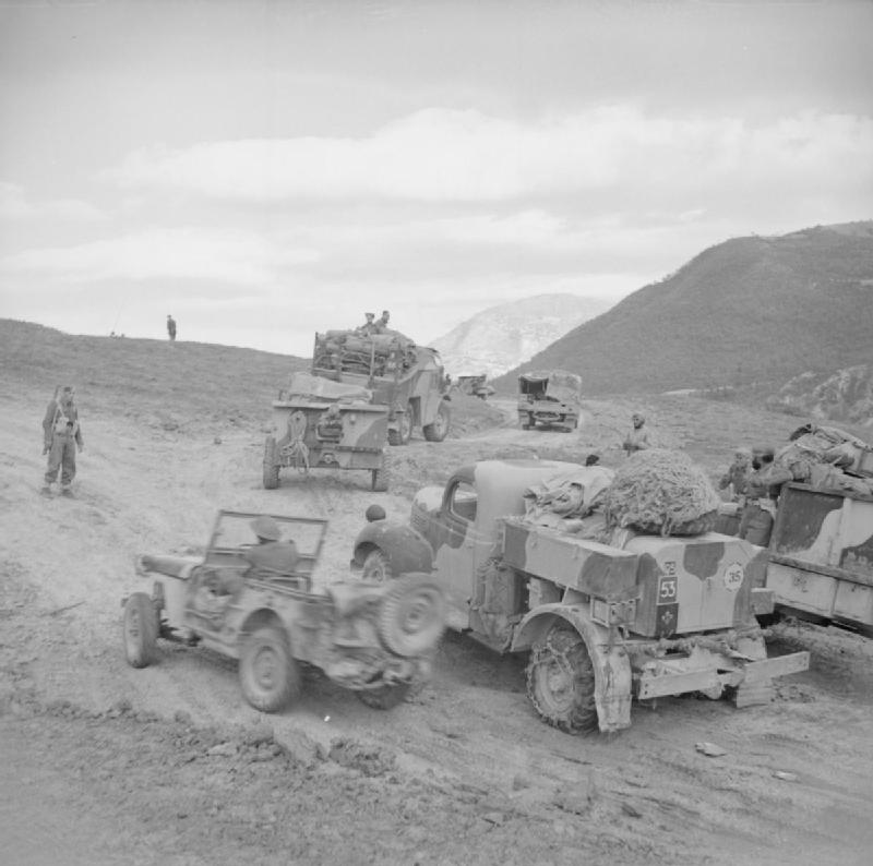 The British Army in Italy 1943 Artillery tractors, trucks and jeeps seen on a road near the river Trigno, 8 November 1943.